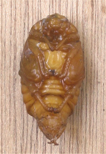 Melolontha melolontha pupa